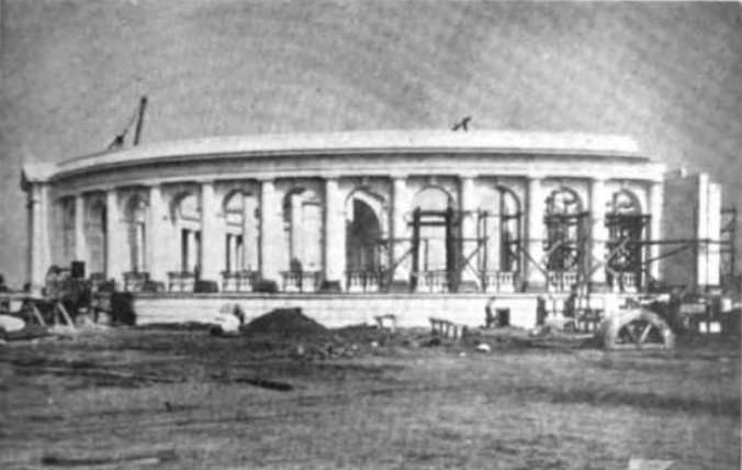 Looking north at Memorial Amphitheater, then under construction at Arlington National Cemetery in Arlington County, Virginia, in the United States.